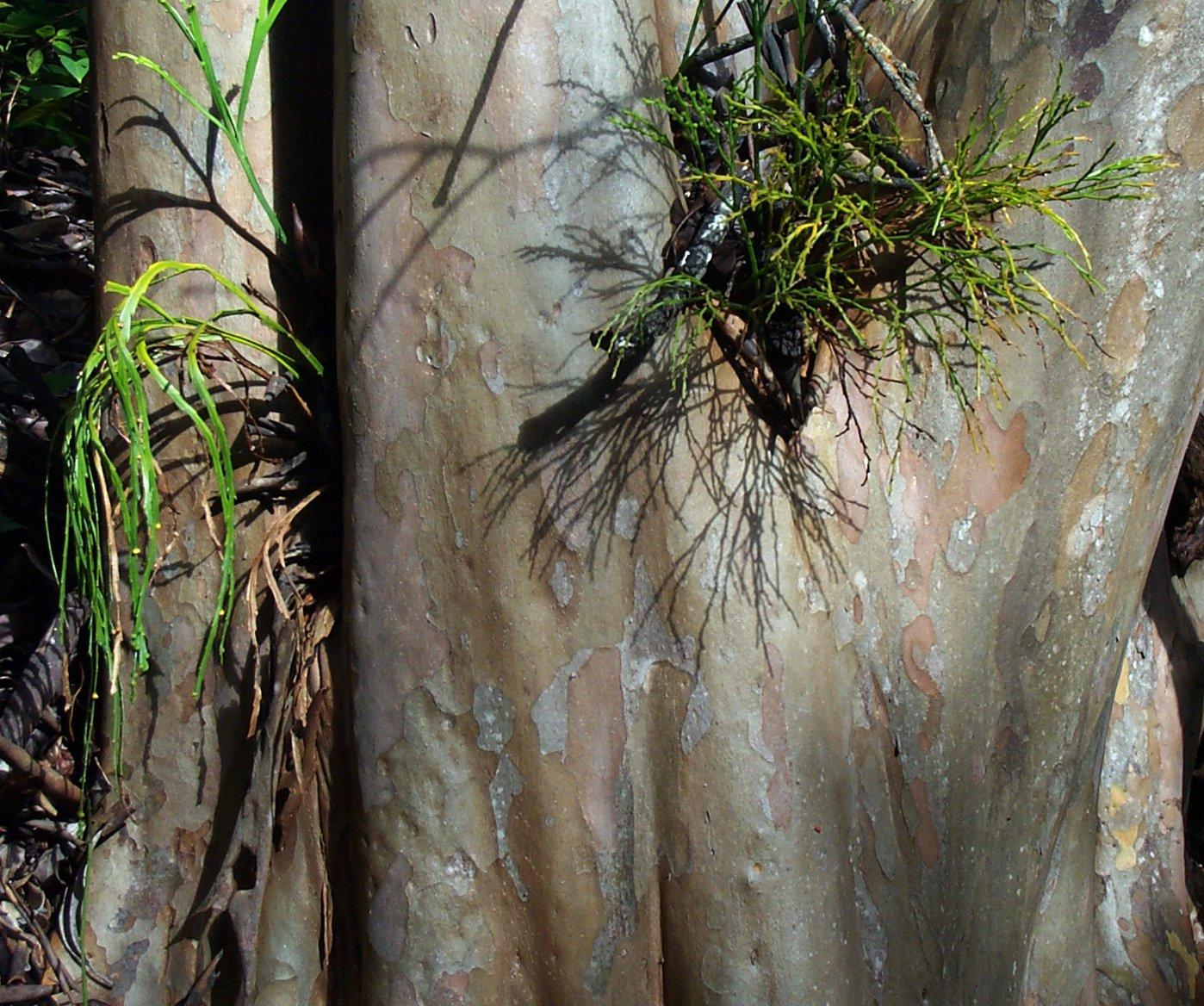 It is an uncommon sight to see the two indigenous moa naturally growing next to each other in the wild. Location: Puʻu Kaua in the Waiʻanae Mts., Oʻahu, Hawaiian Islands In Hawaiian kaua means "war", but kauā means "servant". Pictured are the only two species in the genus Psilotum. Left in the photo is: Moa nahele or Flat-stemmed Whiskfern Psilotum complanatum Right is: Moa or Upright Whiskfern Psilotum nudum This photo was shot by Matthew Walters, my hiking buddy, and published with his permission. Medicinally, moa (Psilotum spp.) was used by the early Hawaiians for kūkae paʻa (constipation) in newborn babies and elderly men and women. It was also mixed with other plants to treat akepau (tuberculosis, consumption), and various respiratory conditions. Additionally, extracts from moa were used as laxatives. The spores were used for diarrhea in infants and used like talcum powder to prevent chafing from loincloths. Moa was also used in lei making by early Hawaiians. Early Hawaiian children would play a simple game of moa nahele (lit., chicken vegetation). Plants in Hawaiian Culture explains how this game was played: "Two children sat or stood facing one another, each holding a branched stem of moa. These they interlocked and then slowly pulled apart until the branches of one broke. The other child, without broken branches, was the winner and announced his victory by crowing like a rooster (moa)". One of the names ʻoʻō moa in fact means "cock's crow".